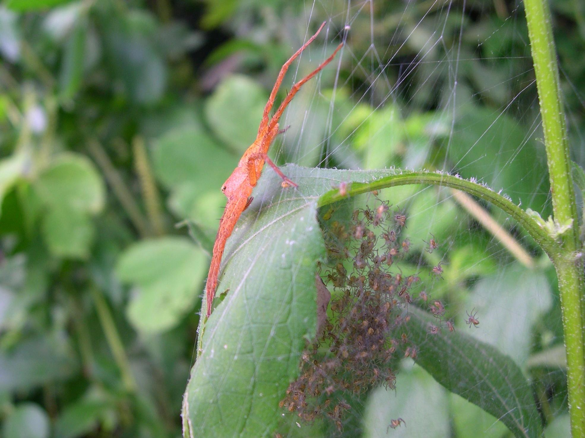 Dolomedes sulfureus L. Koch, 1878 (Pisauridae). Loc. Yokohama, Japan.